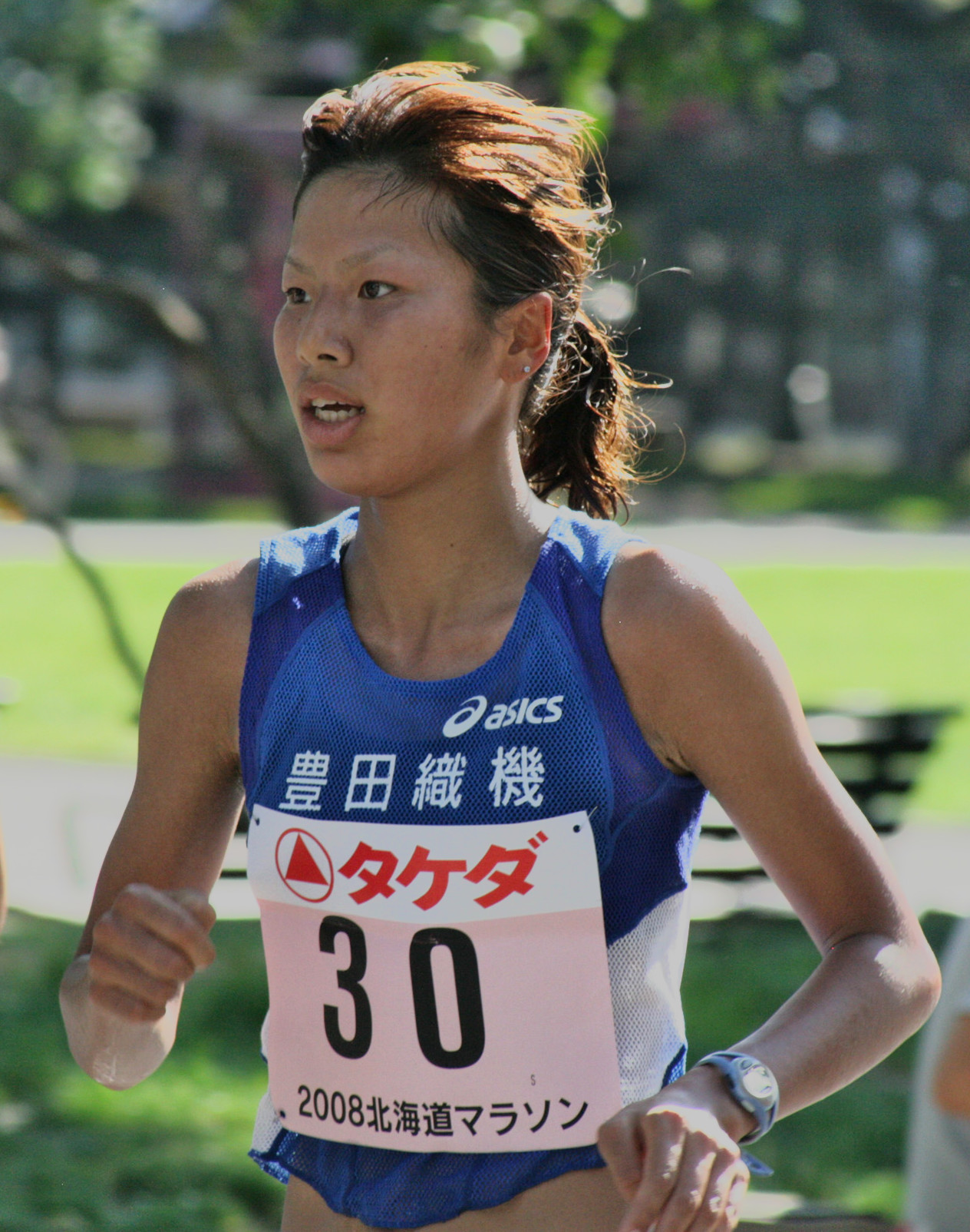 Hitomi Niiya at 2008 Hokkaido Marathon, Sapporo, Hokkaido, Japan